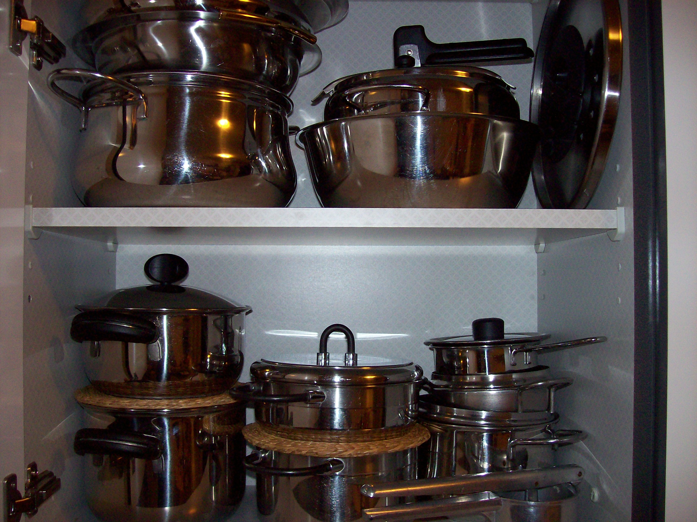 Some kitchen items